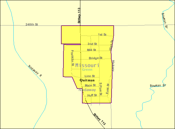 U.S. Census 2000 reference map for Quitman